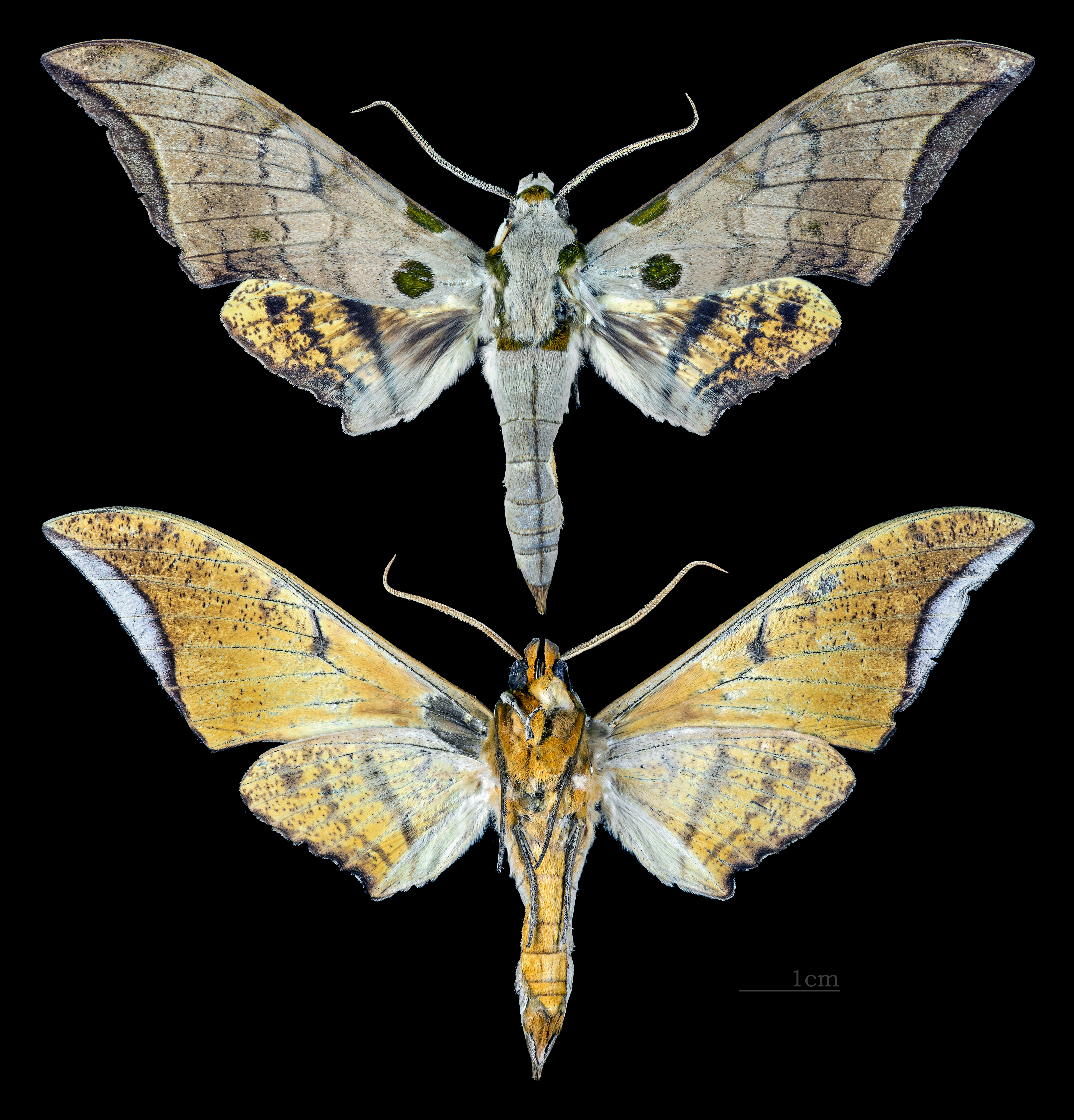 Ambulyx wilemani - Two views of same specimen Collection of the Mathematician Laurent Schwartz